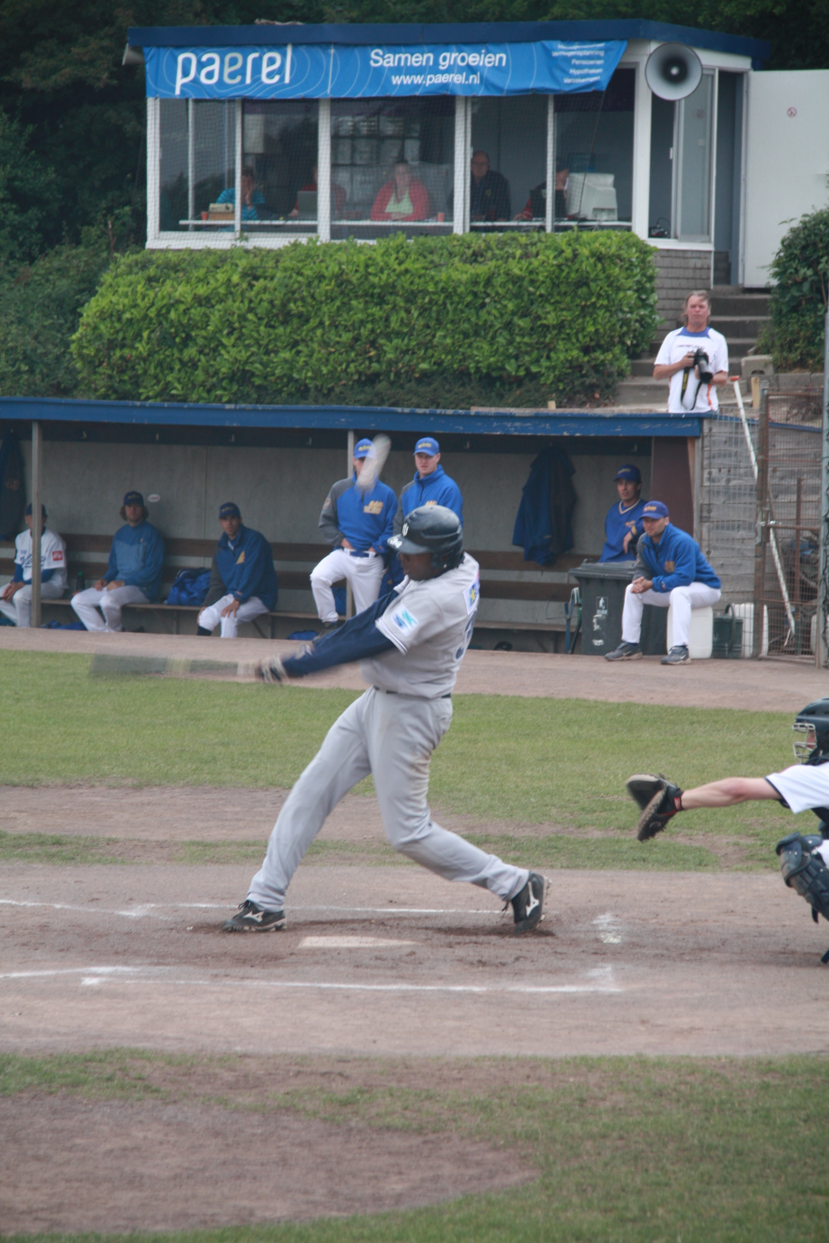 Gene Kingsale (Neptunus)